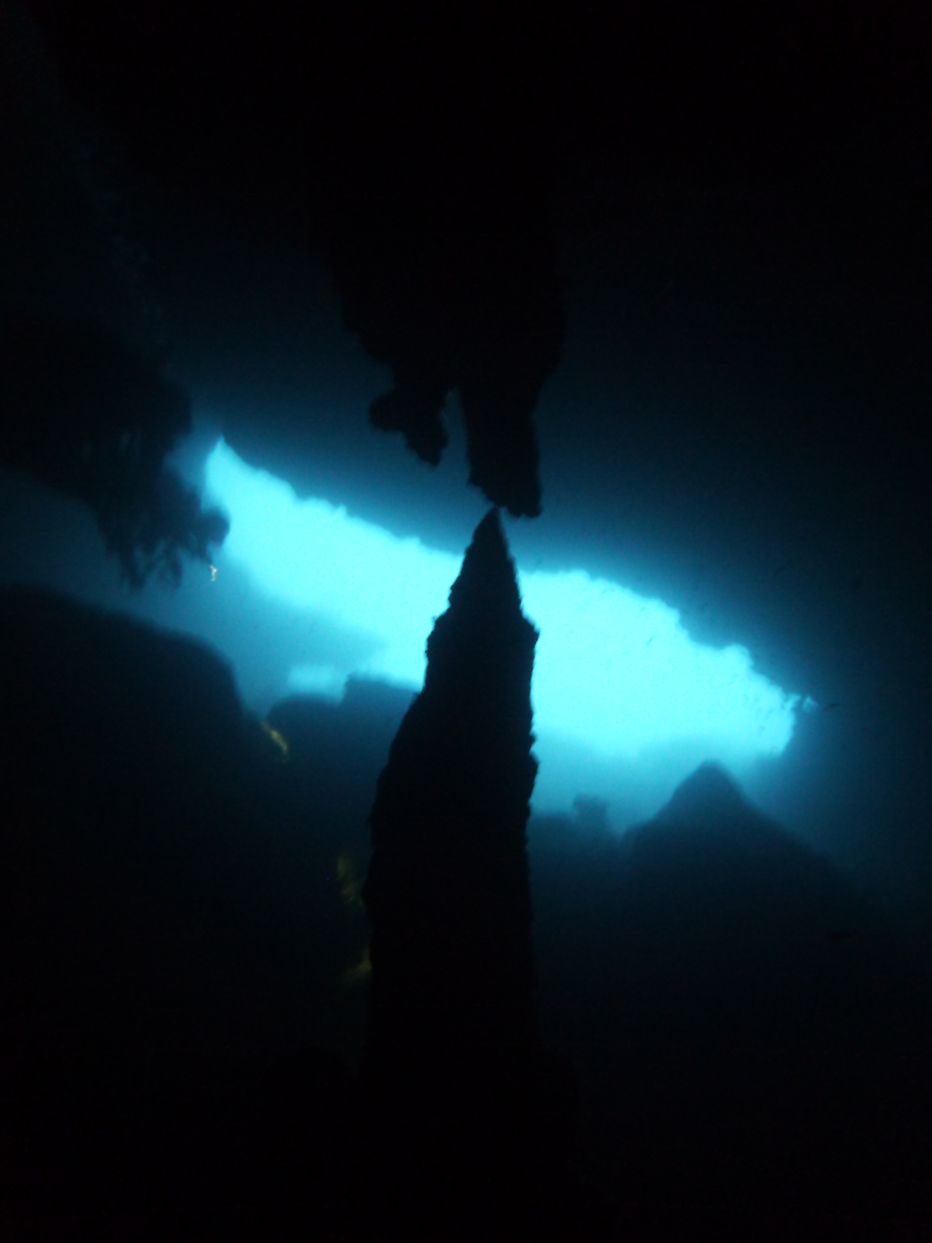 View back to entry of diving cave in Cala sa Nau